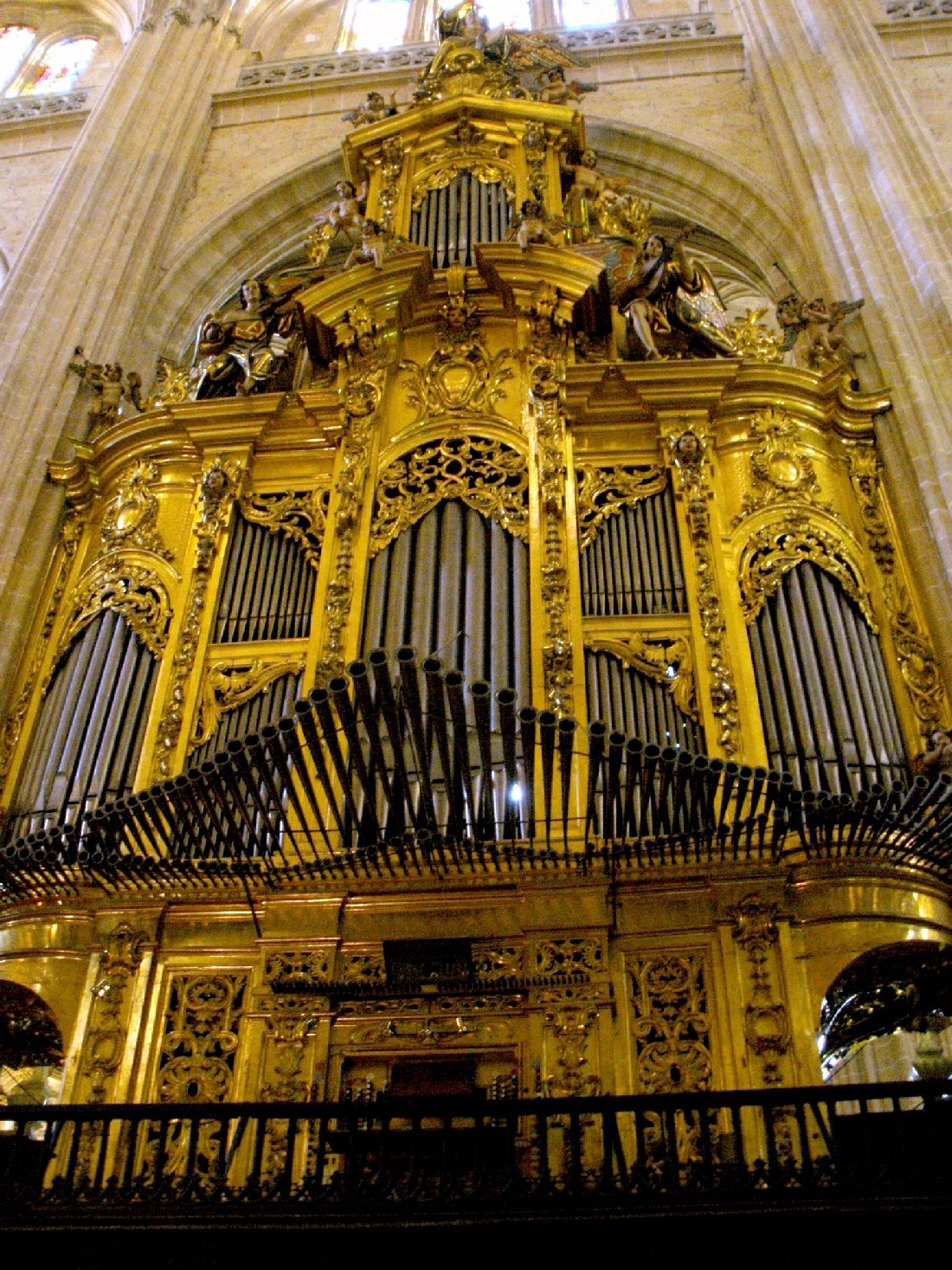 Órgano en la Catedral de Segovia. Segovia Cathedral Native nameCatedral de Santa María de SegoviaLocationSegovia , (Spain)Coordinates40° 57′ 00.65″ N, 4° 07′ 32.24″ W EstablishedMiddle AgeWeb page control : Q1499912 VIAF: 151939123 ISNI: 0000 0001 0672 8869 LCCN: n81124924 NLA: 36562756 BIC: RI-51-0000862 WorldCat institution QS:P195,Q1499912